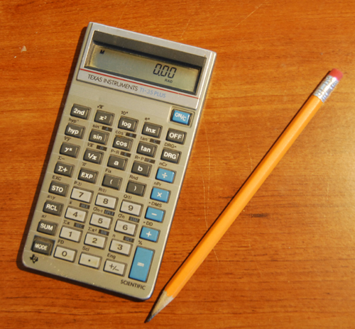 TI-35 Plus Calculator